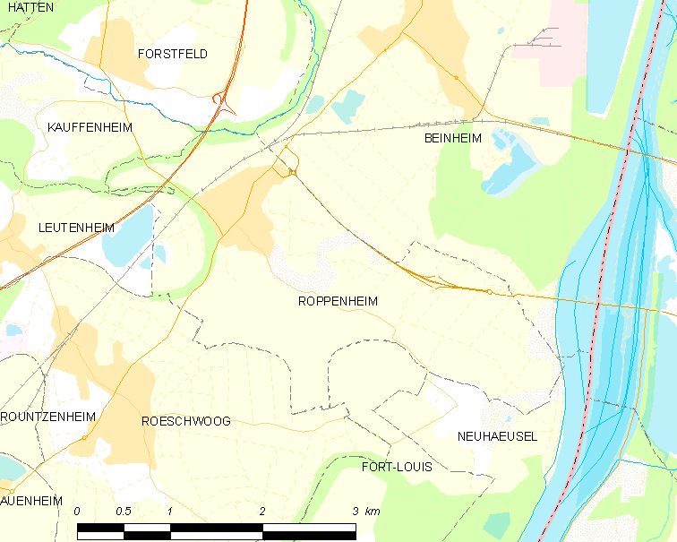 Map of French municipality